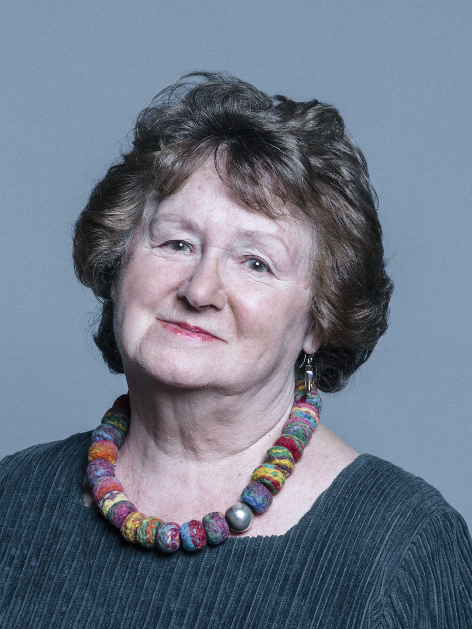 Official portrait of Baroness Andrews